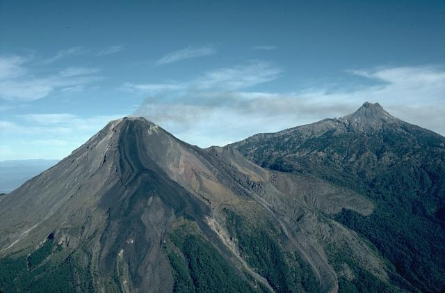 The Colima volcanic complex consists of the massive overlapping stratovolcanoes Nevado de Colima (the 4240 m high point of the complex, at the right) and Volcán de Colima (left).